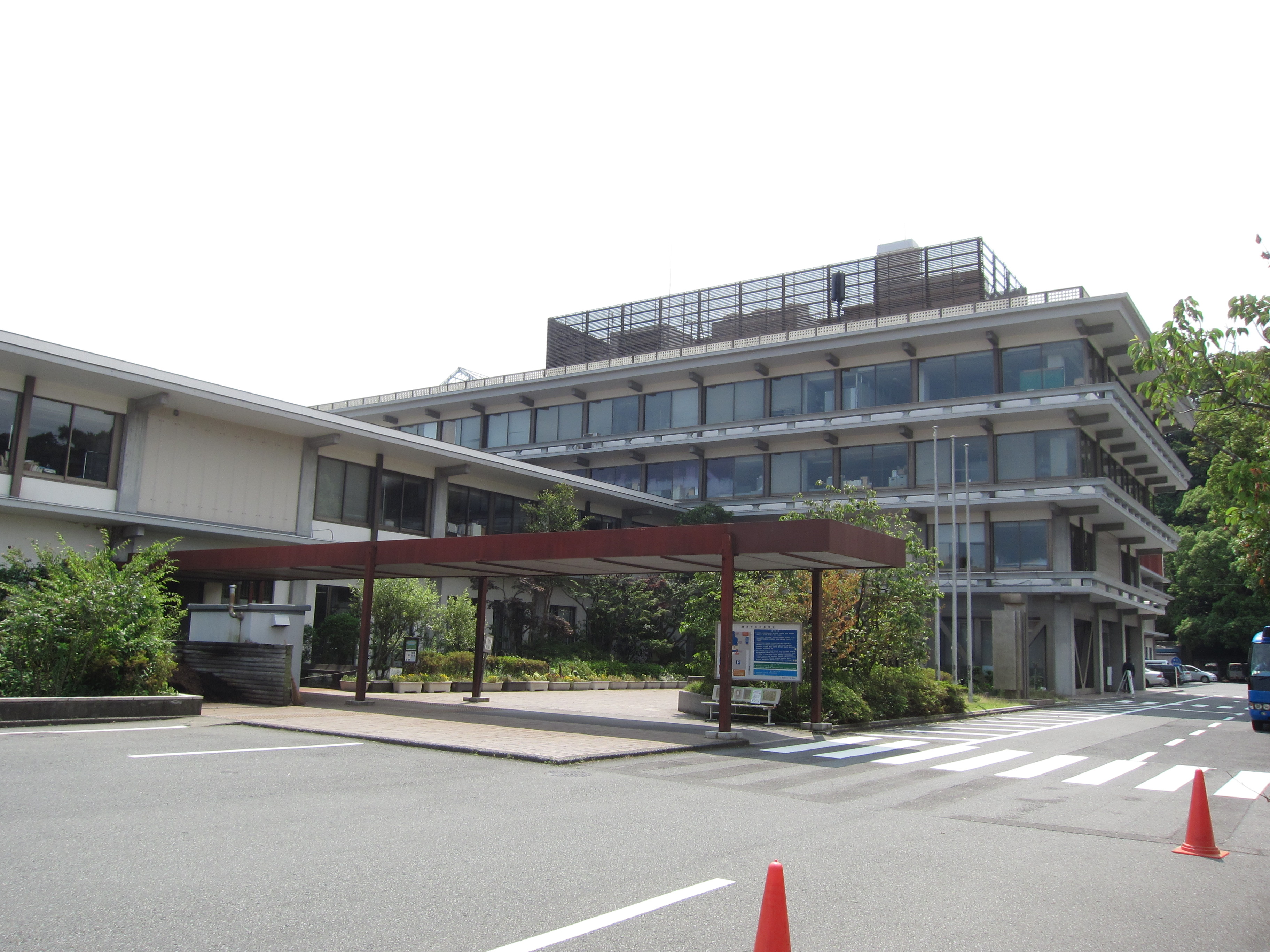 Kamakura City Hall